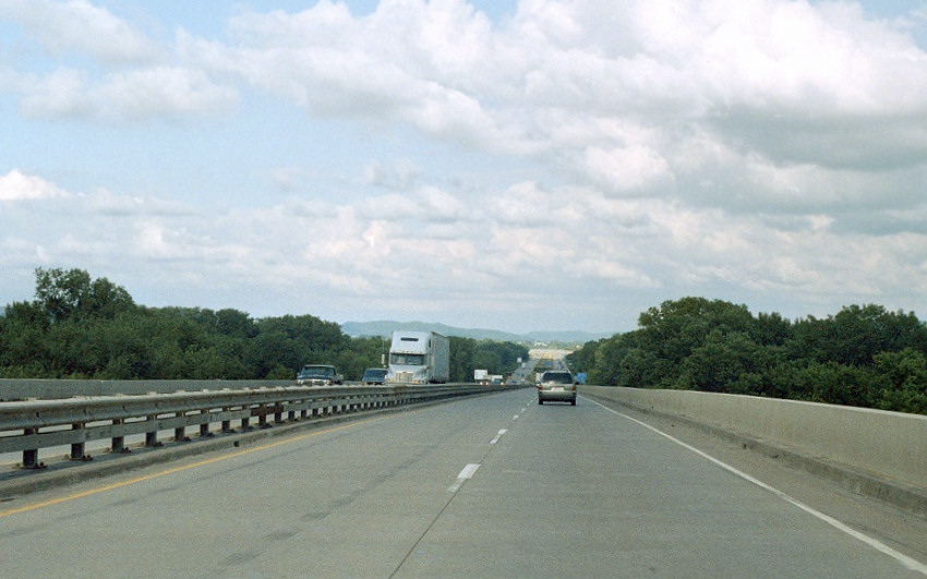 Own work. The I-90 Bridge between La Crosse, Wisconsin and Dresbach, Minnesota Licensing